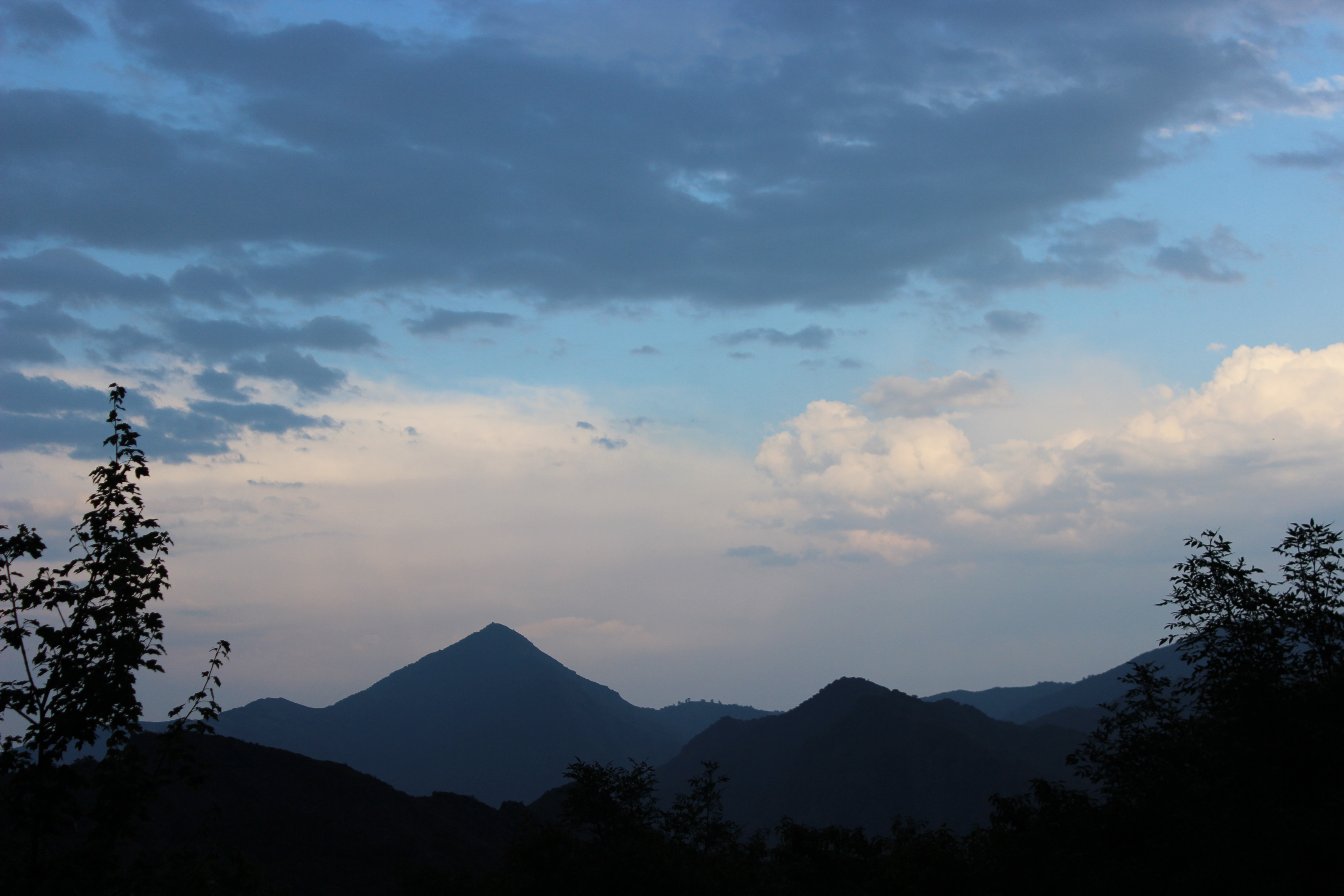 The scene from Liakhvi Strict Nature Reserve represents calm evening in the Georgian mountain valley, beautiful mountain summits, nature, evening sky in magnificent colors. The mood of the picture implicates the beauty, sadness, and joy of Georgia's past and present lives.